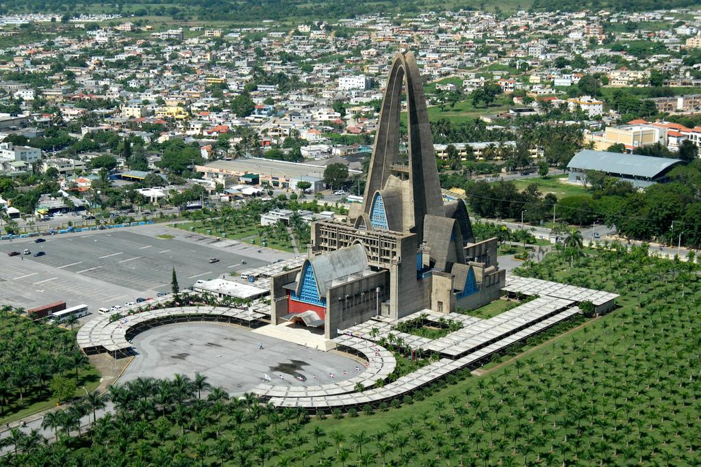 Salvaleón de Higüey overview from air sighting La Altagracia church